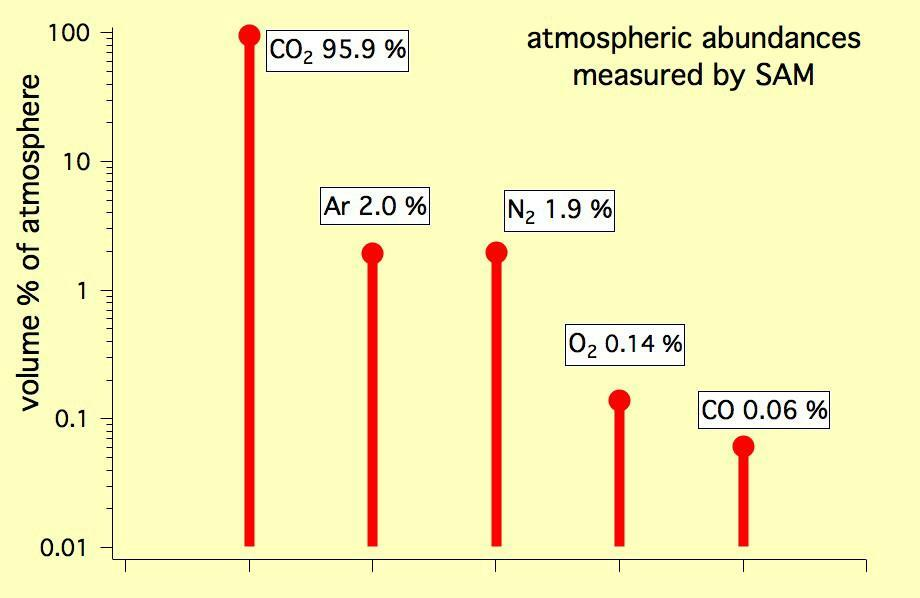 11.02.2012 The Five Most Abundant Gases in the Martian Atmosphere This graph shows the percentage abundance of five gases in the atmosphere of Mars, as measured by the Quadrupole Mass Spectrometer instrument of the Sample Analysis at Mars instrument suite on NASA's Mars rover in October 2012. The season was early spring in Mars' southern hemisphere, and the location was inside Mars' Gale Crater, at 4.49 degrees south latitude, 137.42 degrees east longitude. The graph uses as logarithmic scale for volume percentage of the atmosphere so that these gases with very different concentrations can all be plotted. By far the predominant gas is carbon dioxide, making up 95.9 percent of the atmosphere's volume. The next four most abundant gases are argon, nitrogen, oxygen and carbon monoxide. Researchers will use SAM repeatedly throughout Curiosity's mission on Mars to check for seasonal changes in atmospheric composition. Image credit: NASA/JPL-Caltech, SAM/GSFC